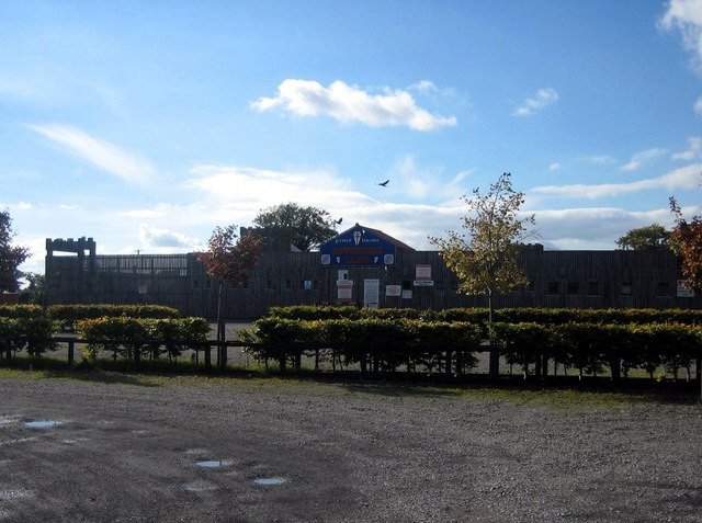 Fort Lucan, Lucan An adventure playground for children.